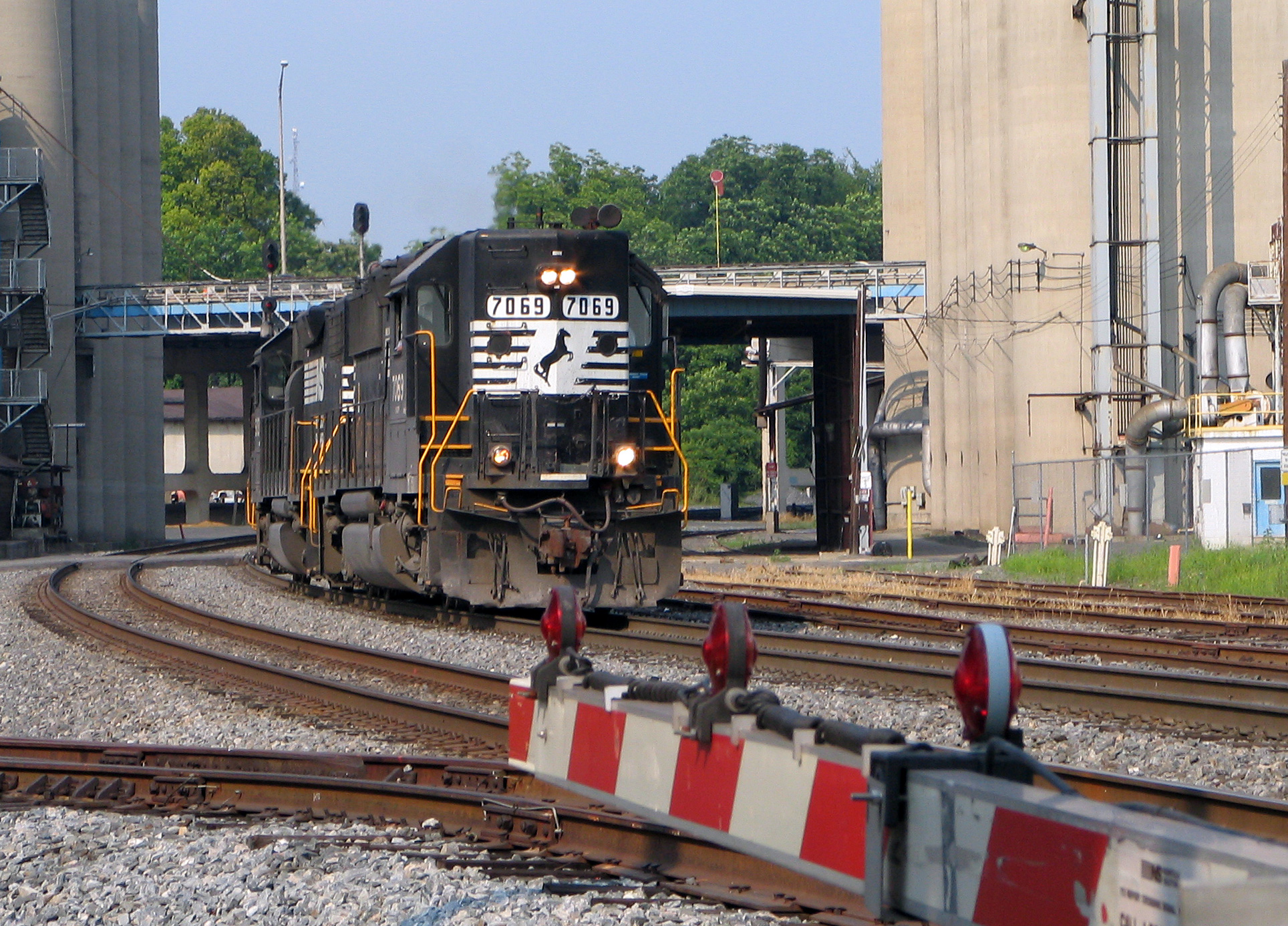 NS 7069 approaches a train crossing in Charlotte, NC.